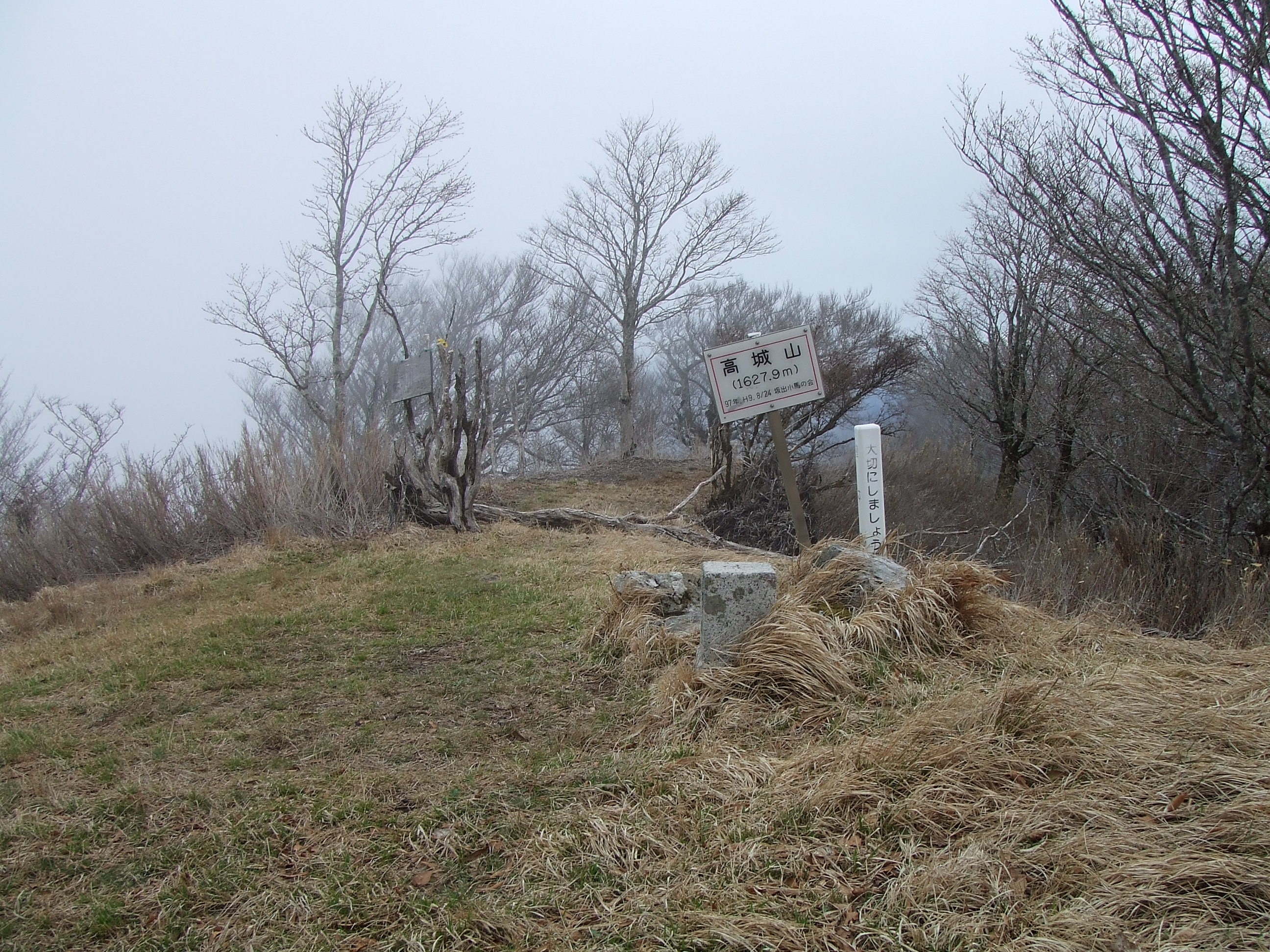 Top of Mount Takashirto (Takashiro-yama)